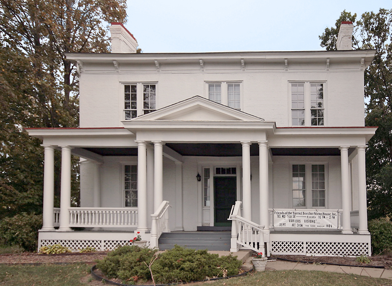 Harriet Beecher Stowe House in Cincinnati, OH. Photo by Greg Hume